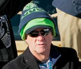 Seattle Seahawks quarterbacks coach Carl Smith on the quarterbacks' float at the Seahawks Super Bowl celebration parade on Feb. 5, 2014.